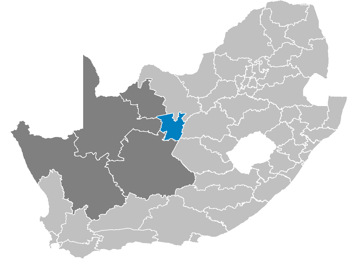 Map showing the Frances Baard District Municipality higlighted within Northern Cape.